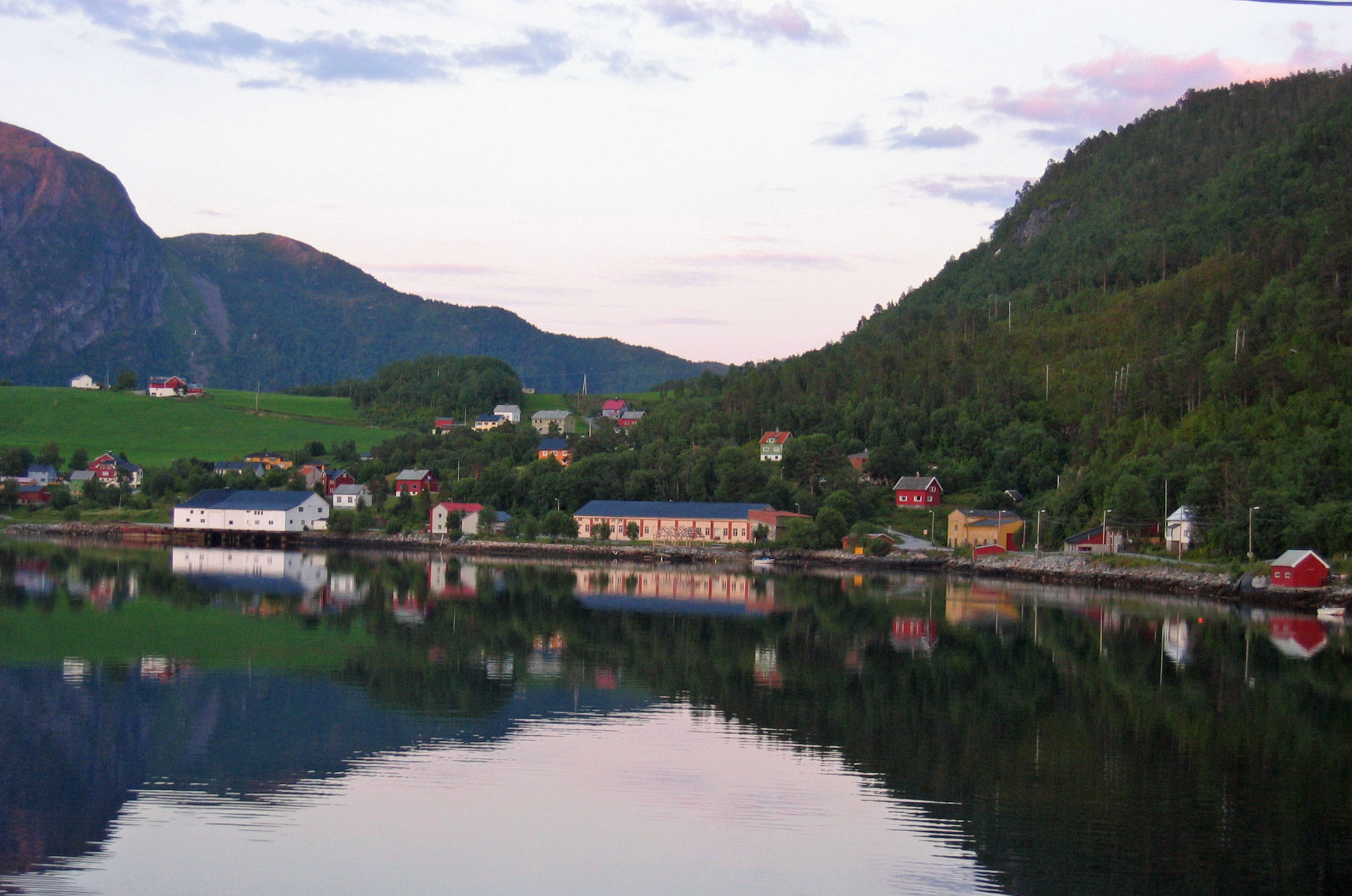 Valsøyfjord